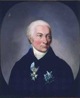 Copy after Christian August Lorentzen.